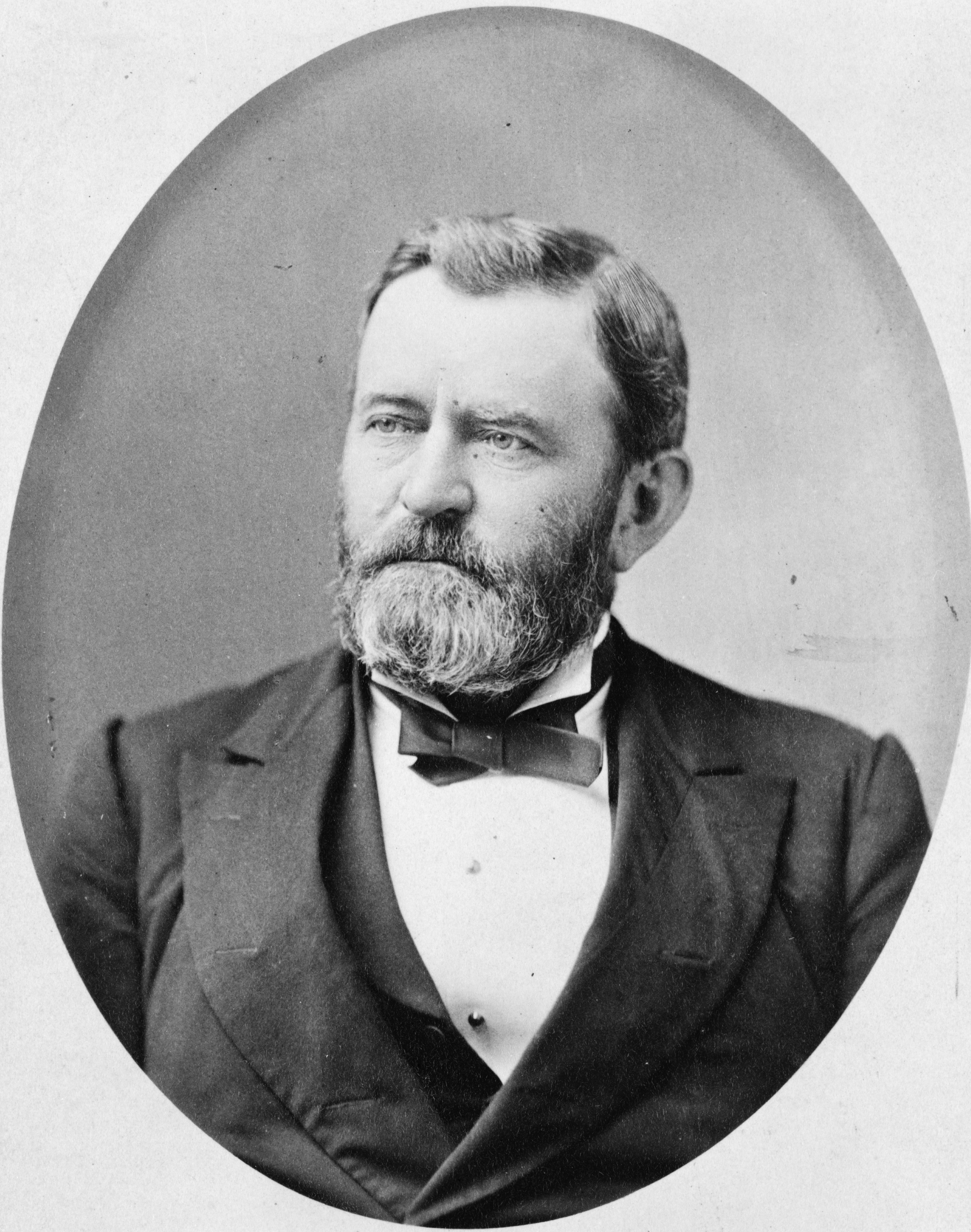 President Ulysses S. Grant, head-and-shoulders portrait, facing left Complement of File:PresidentUSGrantVignette2.jpg